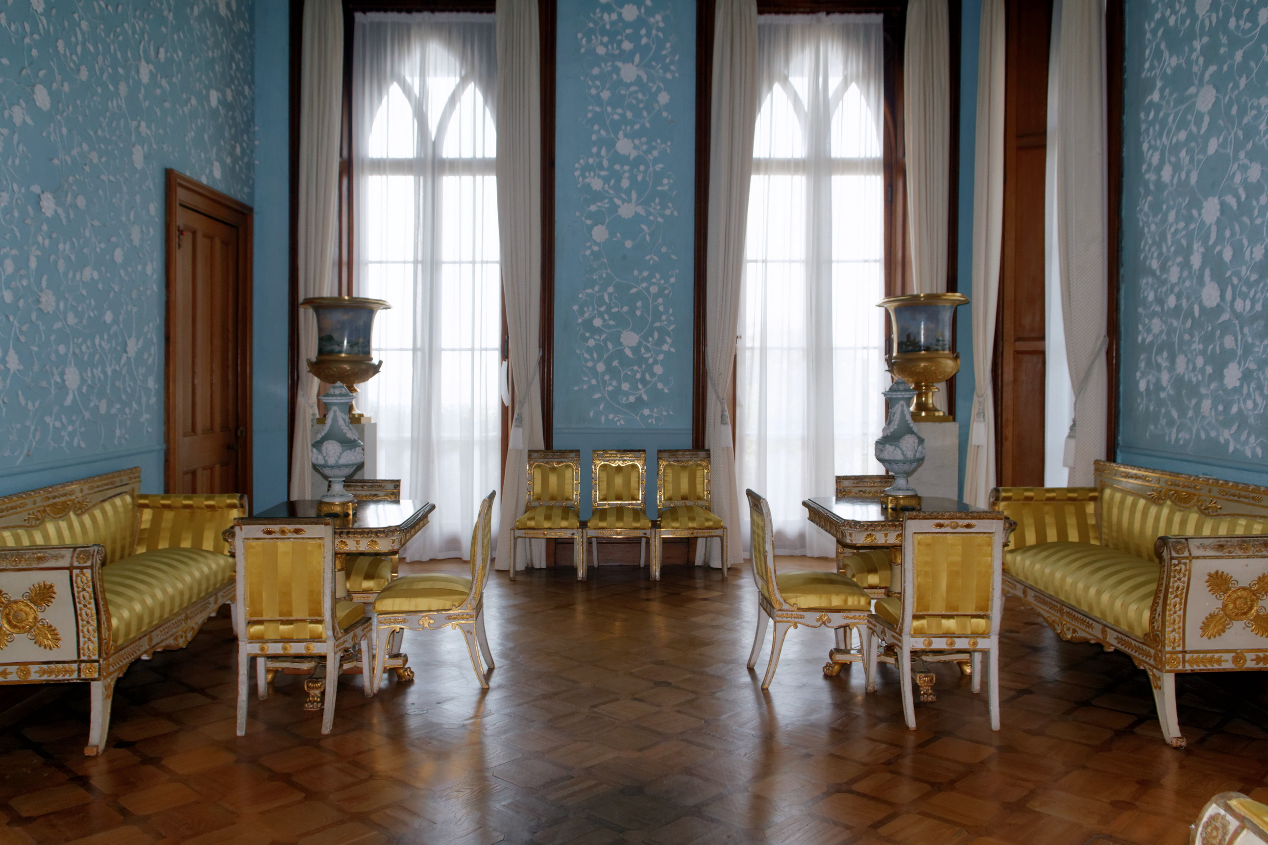 Vorontsov Palace. Blue room